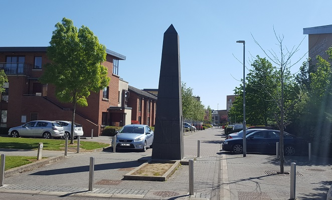 It is located at the intersection of Castlegate Copse and Castlegate Row in Adamstown, Lucan, County Dublin